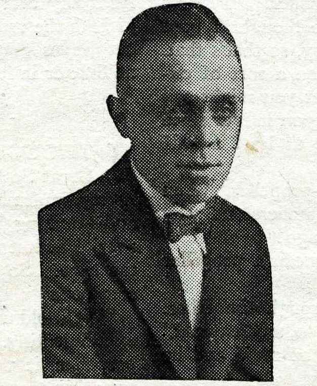 Charles R. Tanner, as depicted in the July 1930 issue of Wonder Stories